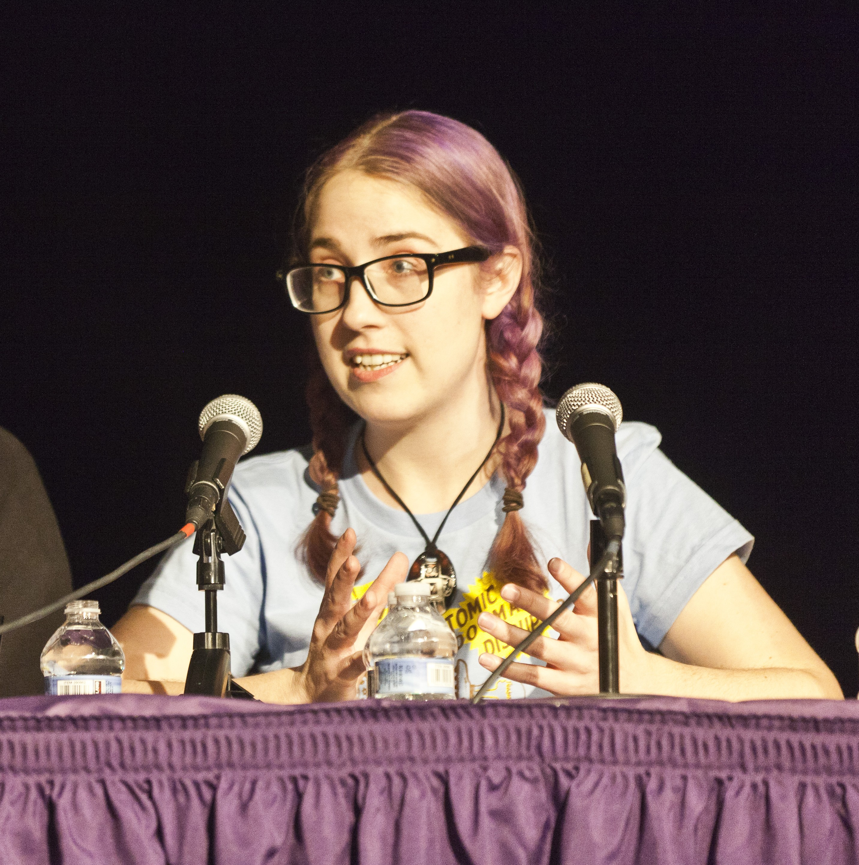 A portrait of Rebecca Watson at NECSS 2011